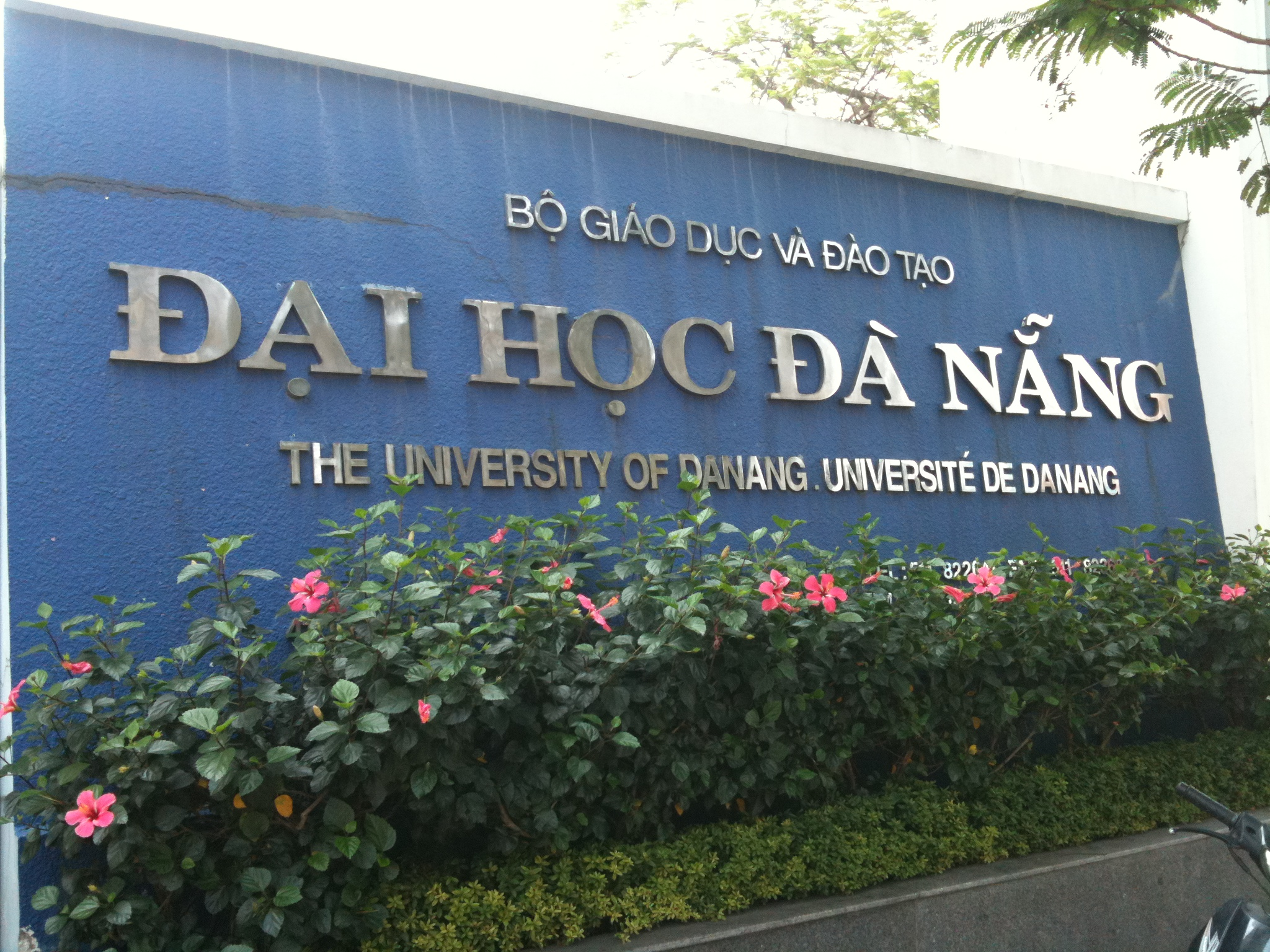 Sign in front of the University of Da Nang's Le Duan Campus, 41 Le Duan, Hải Châu District, Đà Nẵng.